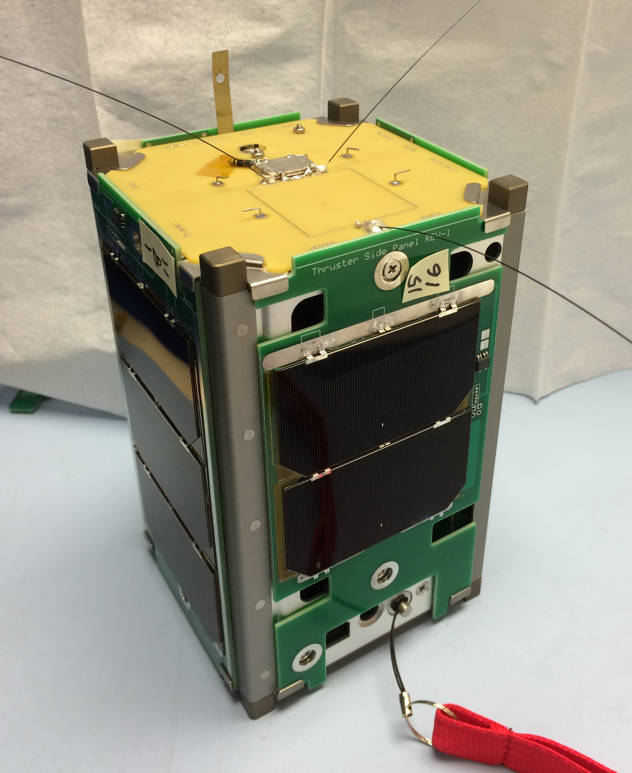 BRICSat-2 initial build without thrusters